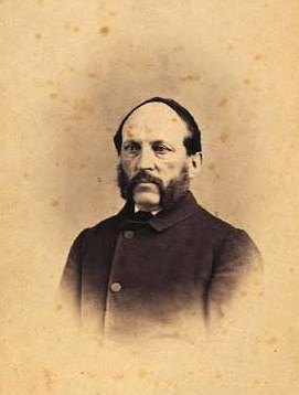 Just Michael Hansen (1812-1891), Danish portrait painter and photographer